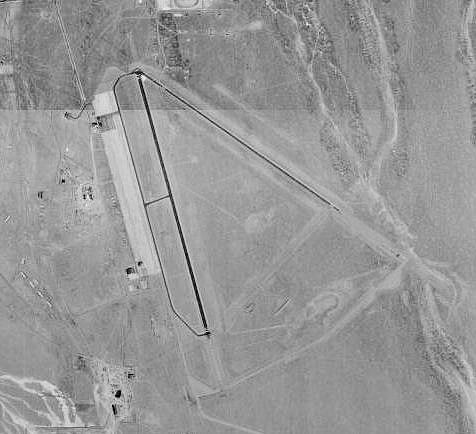 Tonopah Airport - 5 Sep 1999 Source: United States Geological Survey digital orthophotoquad via TerraService WebMap Server